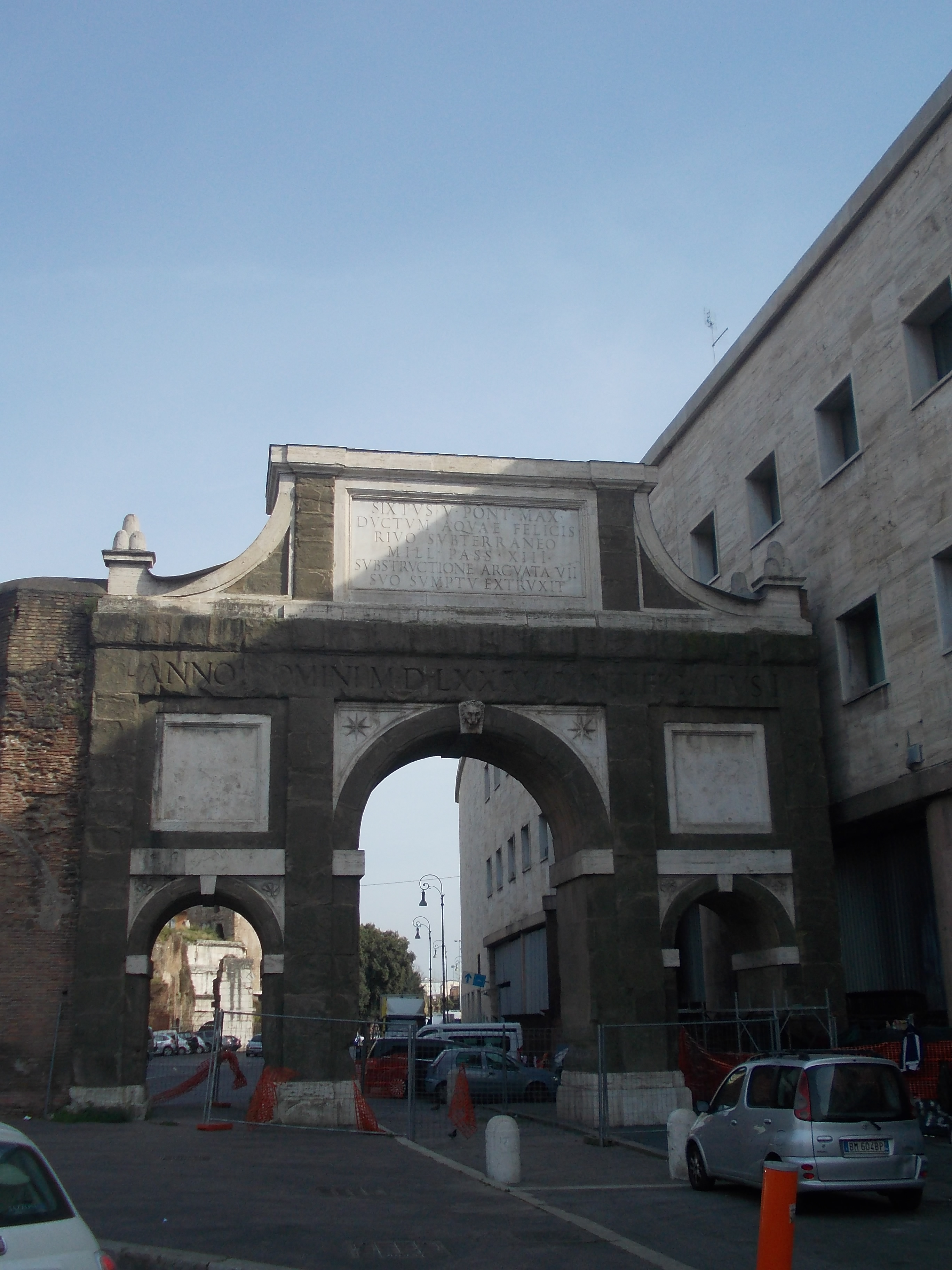 Arch of Sisto the fifth in Rome